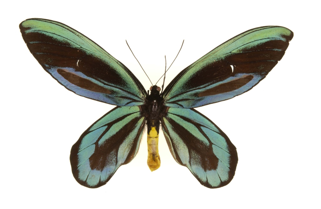 Ornithoptera alexandrae (Rothschild, 1907) Male Papua Popondetta, New Guinea 11 1976